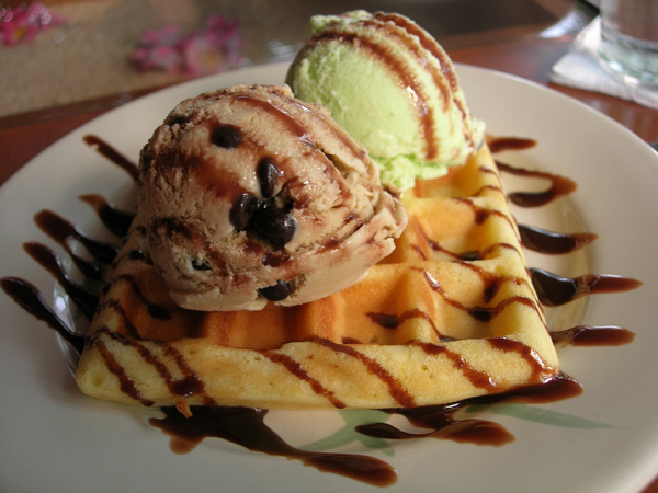 crunchy waffle + chocolate chip ice cream + mint ice cream